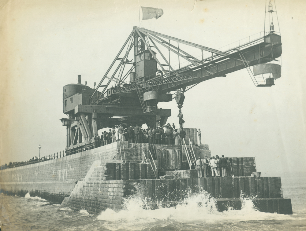 Dignitaries assemble on Roker Pier to watch a block being laid during the visit of the Channel Fleet to Sunderland, 10 September 1895 (TWAM ref. 3768/8). The Sunderland Daily Echo reported that on 10 September 1895 “Admiral Lord Walter Kerr, in the presence of his staff, members of the River Wear Commission and many influential gentleman laid a 45 ton block in the new Pier. This set of images relates to Roker Pier, Sunderland and is taken from a scrapbook kept by Henry Hay Wake, chief engineer to the River Wear Commission. Henry Wake designed Roker Pier and also oversaw its construction from beginning to end. The Pier' s foundation stone was laid in September 1885 and it was formally opened on 23 September 1903. The Pier is 2,800 feet long and was built of Aberdeen granite and concrete cement at a total cost of £290,000. (Copyright) We're happy for you to share this digital image within the spirit of The Commons. Please cite 'Tyne & Wear Archives & Museums' when reusing. Certain restrictions on high quality reproductions and commercial use of the original physical version apply though; if you're unsure please .